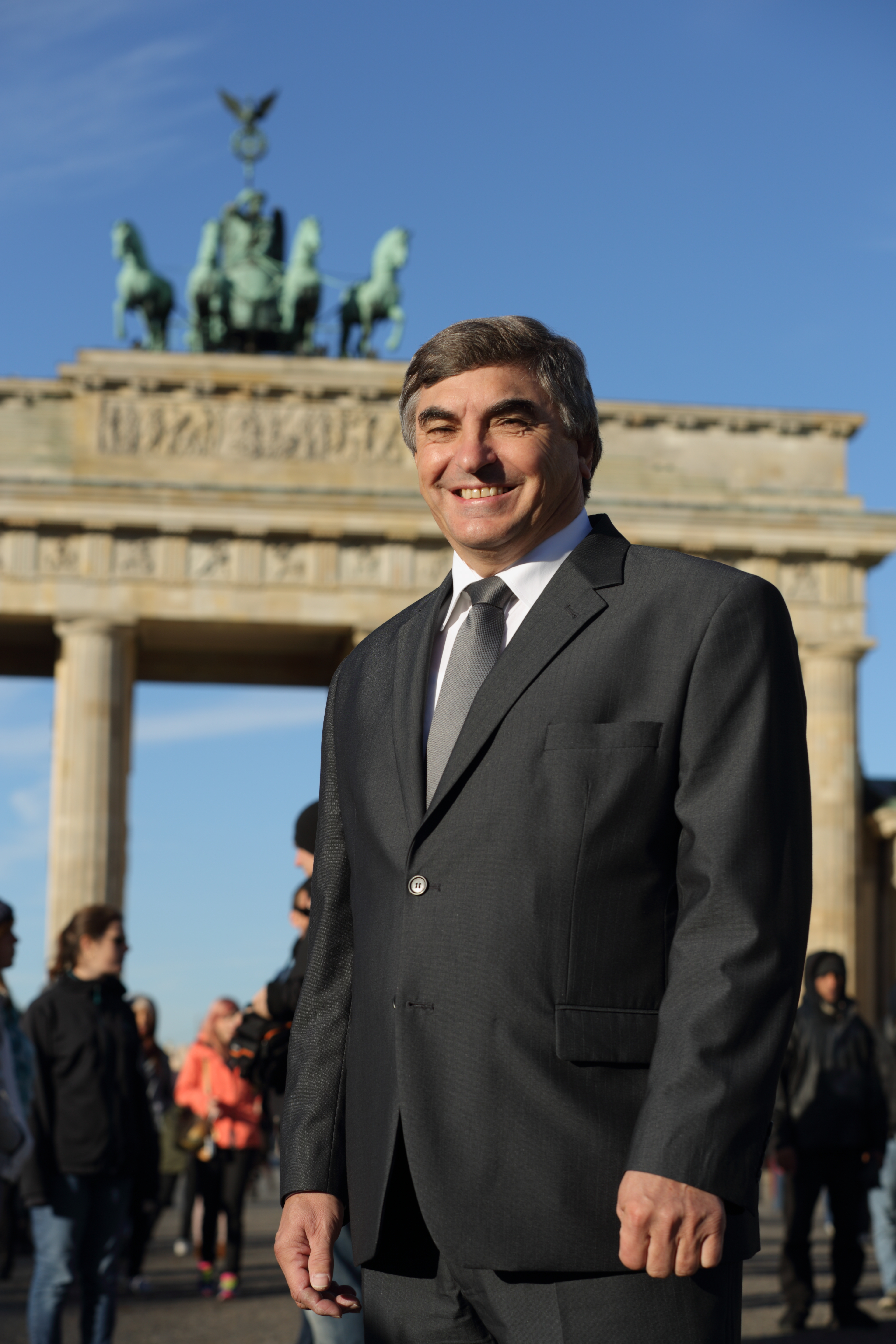 Karl Holmeier vor dem Brandenburger Tor 2012